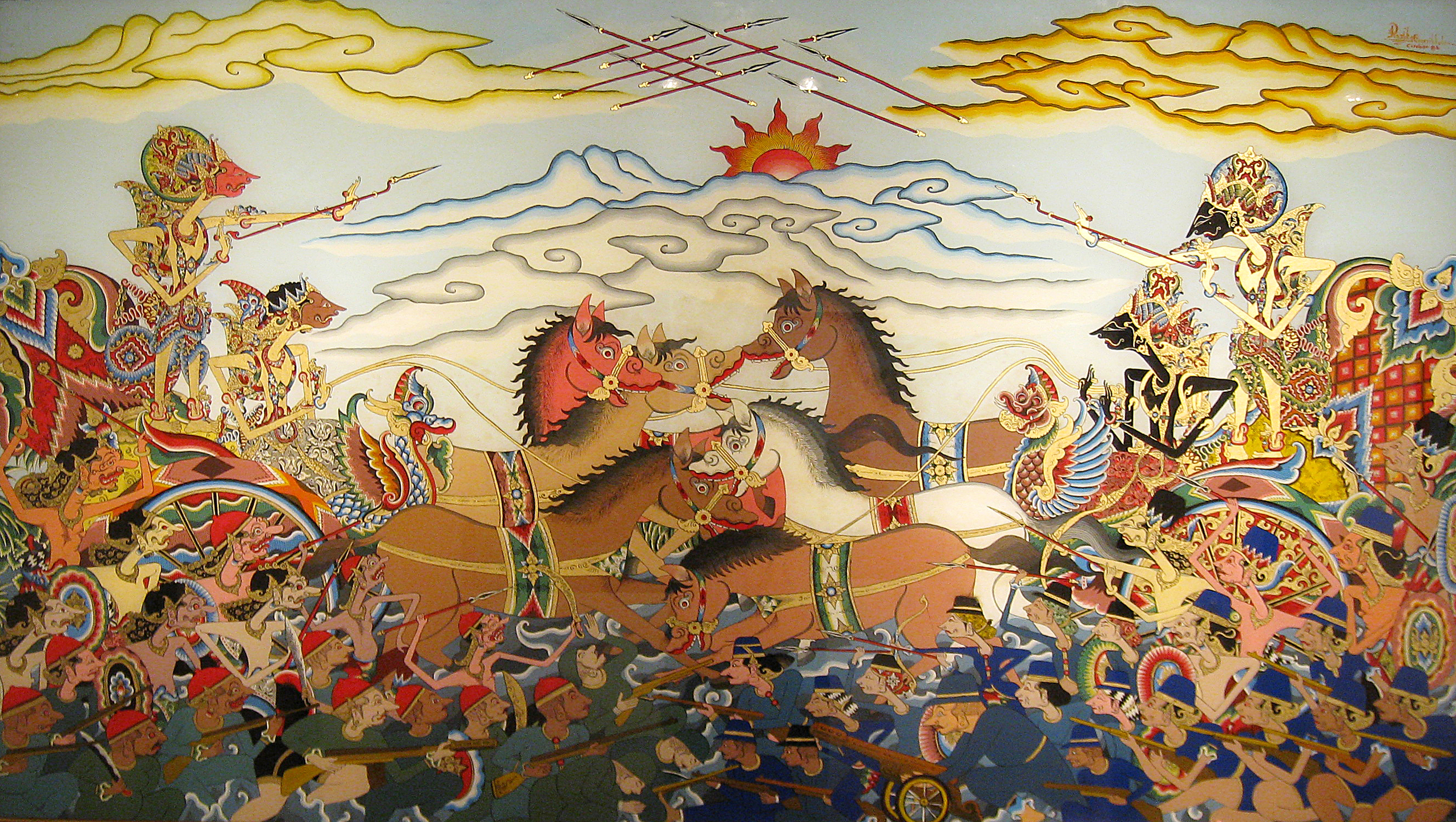 The Cirebon glass painting of Bharatayudha battle in Wayang style. Kurawa on the left and Pandawa on the right. On the left Karna ride the chariot with Salya as the driver, while on the right Arjuna ride the chariot with Kresna as the driver. Wayang Exhibition, Bentara Budaya Jakarta.